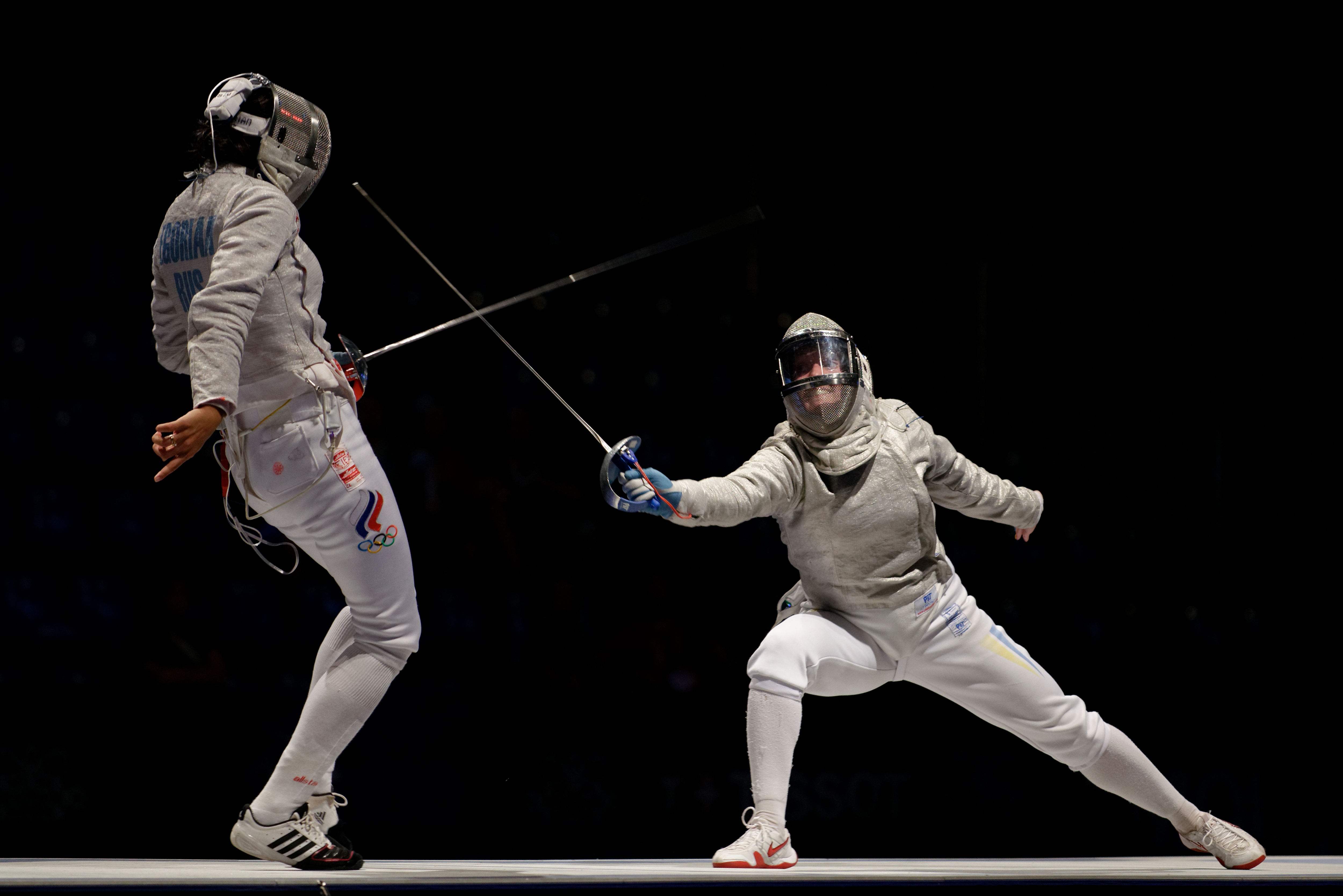 Olena Voronina of Ukraine (R) attacks Russia's Yana Egorian (L) in the women's team sabre final of the 2013 World Fencing Championships 2013 at Syma Hall in Budapest, 12 August 2013.